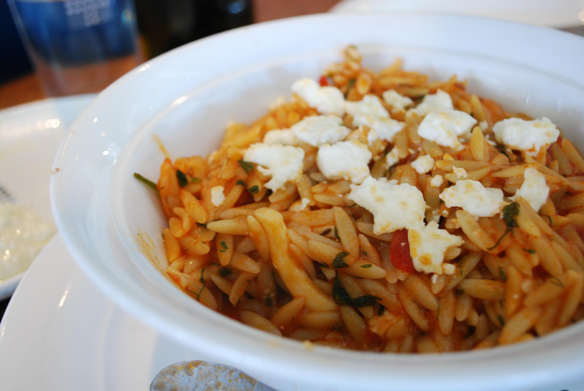 Braised seafood, tomato, kritharaki and feta The Thalassino Youvetsi at Hellenic Republic was another dish that i raved about the last time. Time time, the kingfish was nice and moist and the prawns were ncie, but probably frozen. The squid was braised until it was soft and tender but still very tasty. The feta cheese was salty but smooth, and much more fragrant that a salty gritty lumps you usually get. I do love the combination of dill, fennel and tomato so common in Greek cooking! The youvetsi pasta was a bit heavy for lunch though. --- Casual lunch at Hellenic Republic. A few small plates, and a bit of seafood youvetsi. And of course, loukoumathes. Hellenic Republic (03) 9381 1222 434 Lygon St Brunswick East VIC 3057 Reviews: Hellenic Republic, by Larissa Dubecki, Epicure, The Age, February 12, 2009 It's all Greek at Hellenic Republic, by John Lethlean, Executive Style, Sydney Morning Herald, March 11, 2009 Calamari, kalamata, Calombaris. It's all Greek and all good at Hellenic Republic. Hellenic Republic - Gourmet Traveller - March 2009 issue of Australian Gourmet Traveller George Calombaris gives classic taverna dining a baby-boomer twist that’s confident, exciting and rekindles diners’ memories of their Grecian adventures, says John Lethlean. Hellenic Republic - 06 December, 2008 Stepping inside does not quite equate to entering a portal to the Aegean coast, although if you answered to the name of Onassis and enjoyed cruising the Greek isles in boat shoes and linen trousers you'd complement the design well. Lunch @ Hellenic Republic - Saturday, January 03, 2009 saganaki with peppered figs - this was deliriously good